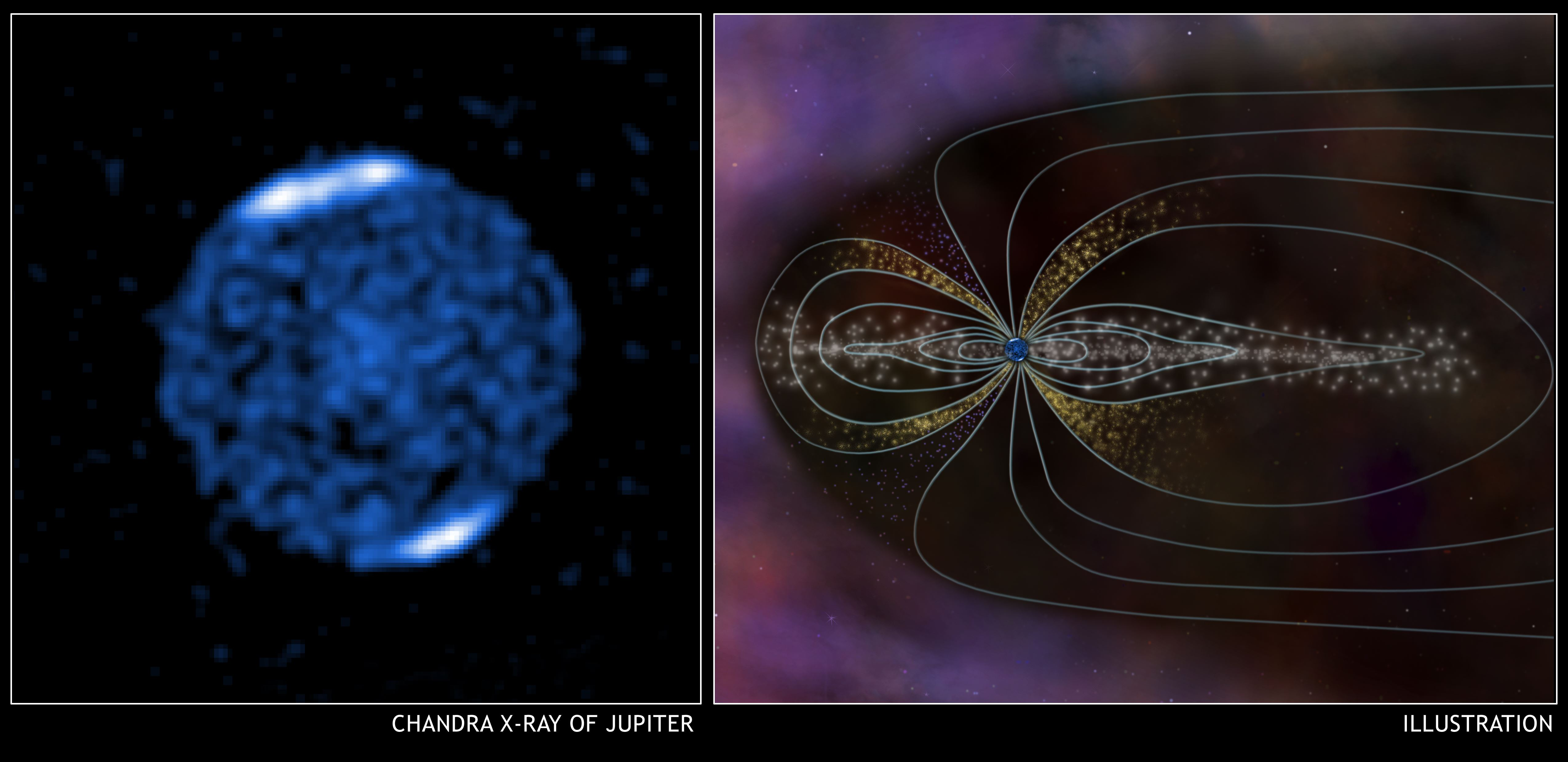 Jupiter shows intense X-ray emission associated with auroras in its polar regions (Chandra image on left). The accompanying schematic illustrates how Jupiter's unusually frequent and spectacular auroral activity is produced. Jupiter's strong, rapidly rotating magnetic field (light blue lines) generates strong electric fields in the space around the planet. Charged particles (white dots), trapped in Jupiter's magnetic field, are continually being accelerated (gold particles) down into the atmosphere above the polar regions, so auroras are almost always active on Jupiter. Observation period: 17 hrs, 24-26 Feb 2003